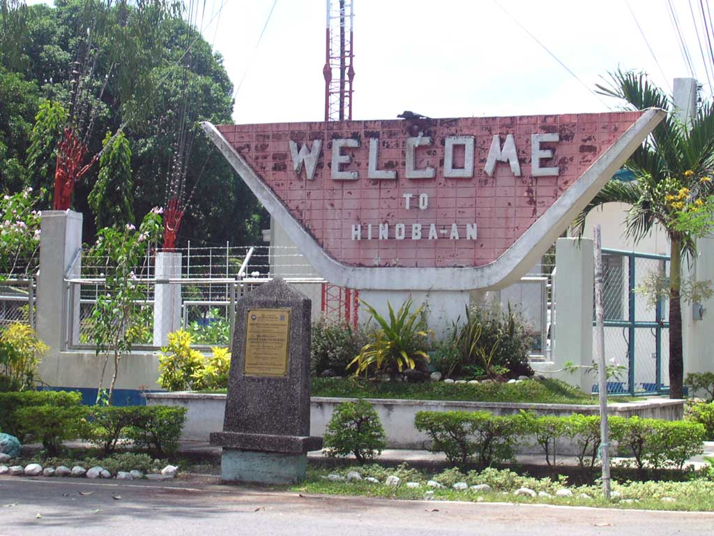 "Welcome to Hinoba-an" sign in the town proper of Hinoba-an, Negros Occidental